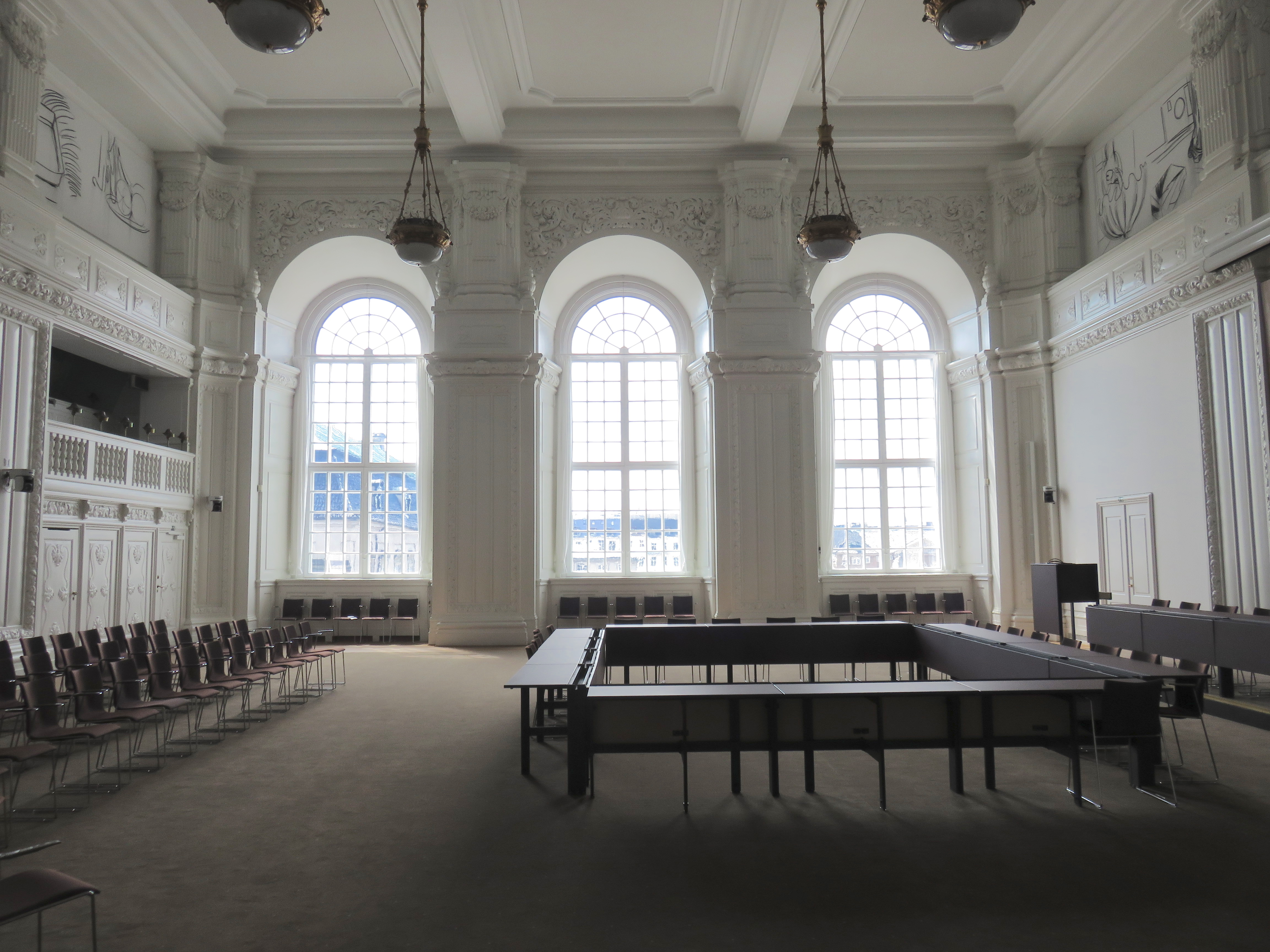 Landsting chamber in Christiansborg Palace, Copenhagen, Denmark in 2018